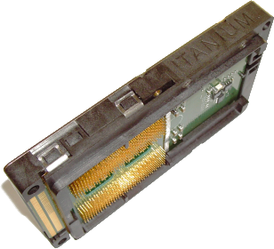 Intel Itanium Processor 733MHz 2 MB Cache